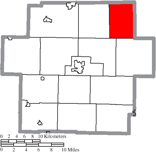 Map of the municipal and township boundaries of Carroll County, Ohio, United States, as of the 2000 census, with the location of East Township highlighted. Township borders are shown only in unincorporated areas in order to differentiate incorporated and unincorporated areas more clearly.